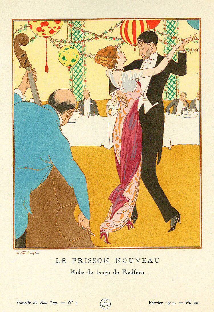 Robe de tango de Redfern. Illustration published in La gazette du bon ton